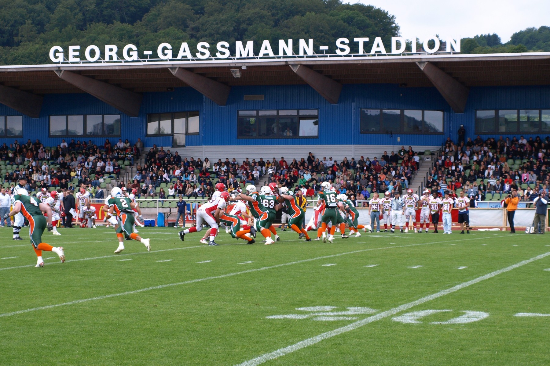 Szene of a match of the Marburg Mercenaries in the Georg Gaßmann Stadium in Marburg